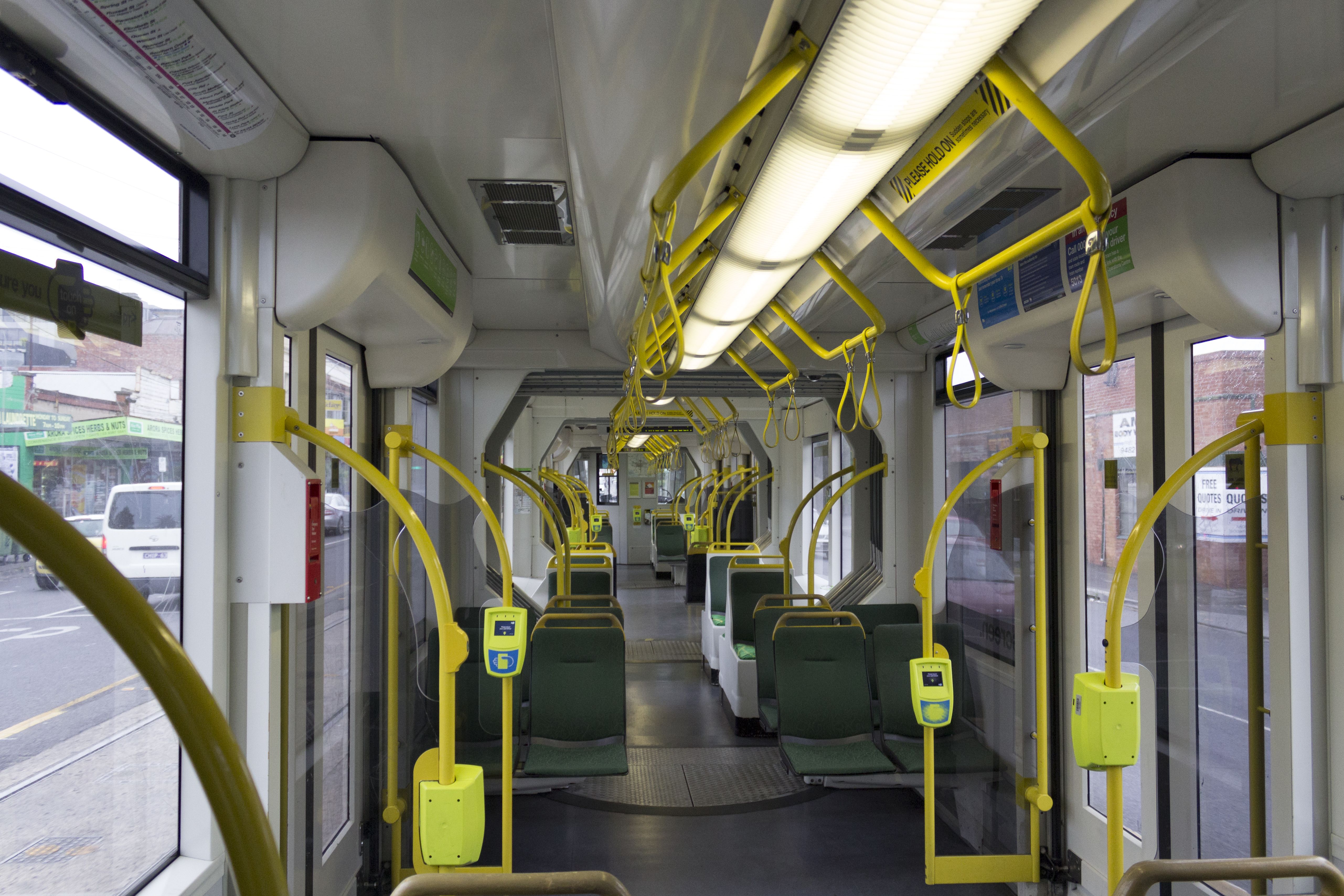 D2-class Melbourne tram 5013 interior, 2013. Fitted with myki and no metcard.